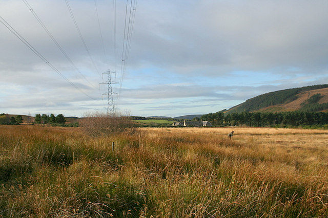 A "Flanker" east of Bodnastalker In the shooting field the Flanker's job is to attempt to encourage the birds to fly along a course towards the guns. Normally positioned on either flank just ahead of the beaters his intentions are not always recognized by the birds!